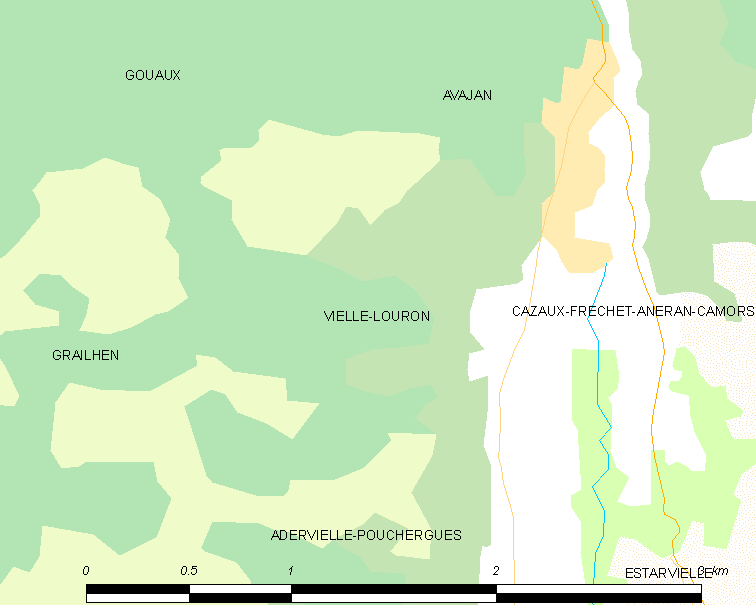 Map of French municipality